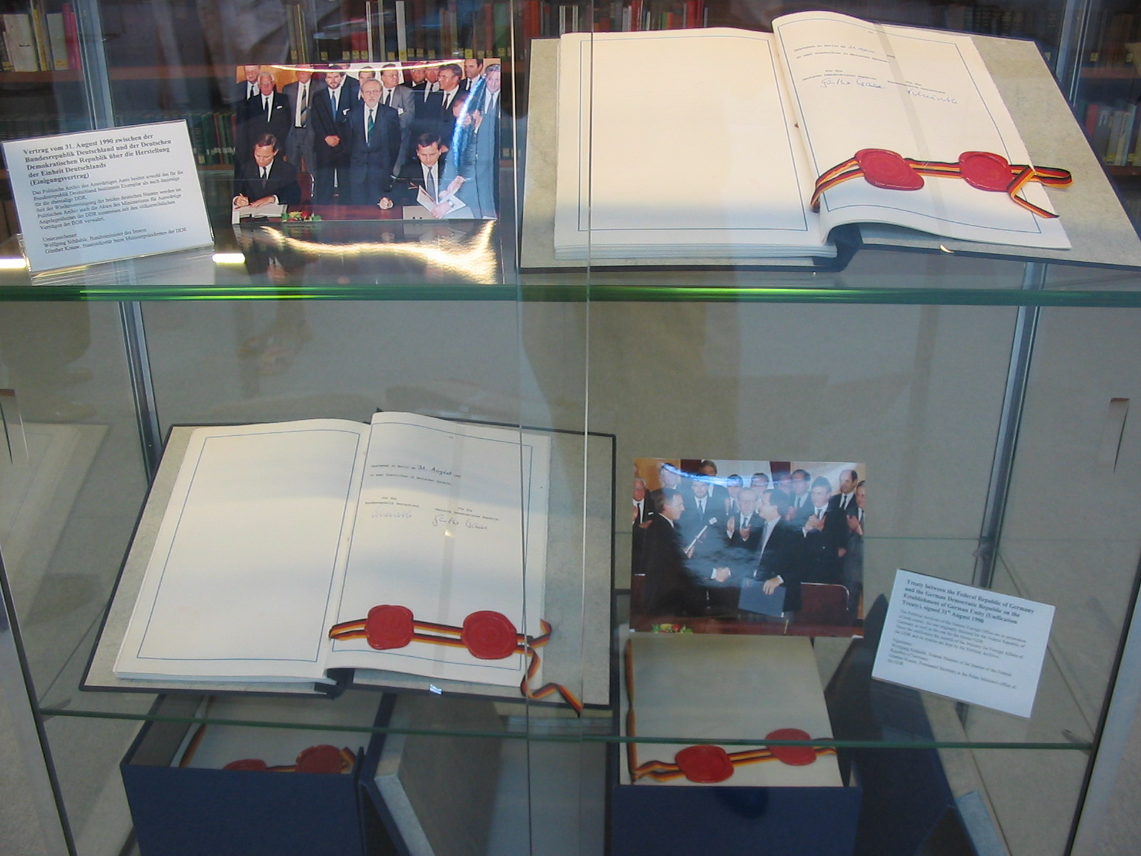 Treaty of the German unification 1990. Both specimens are preserved in the archives of the German Foreign Office in Berlin.